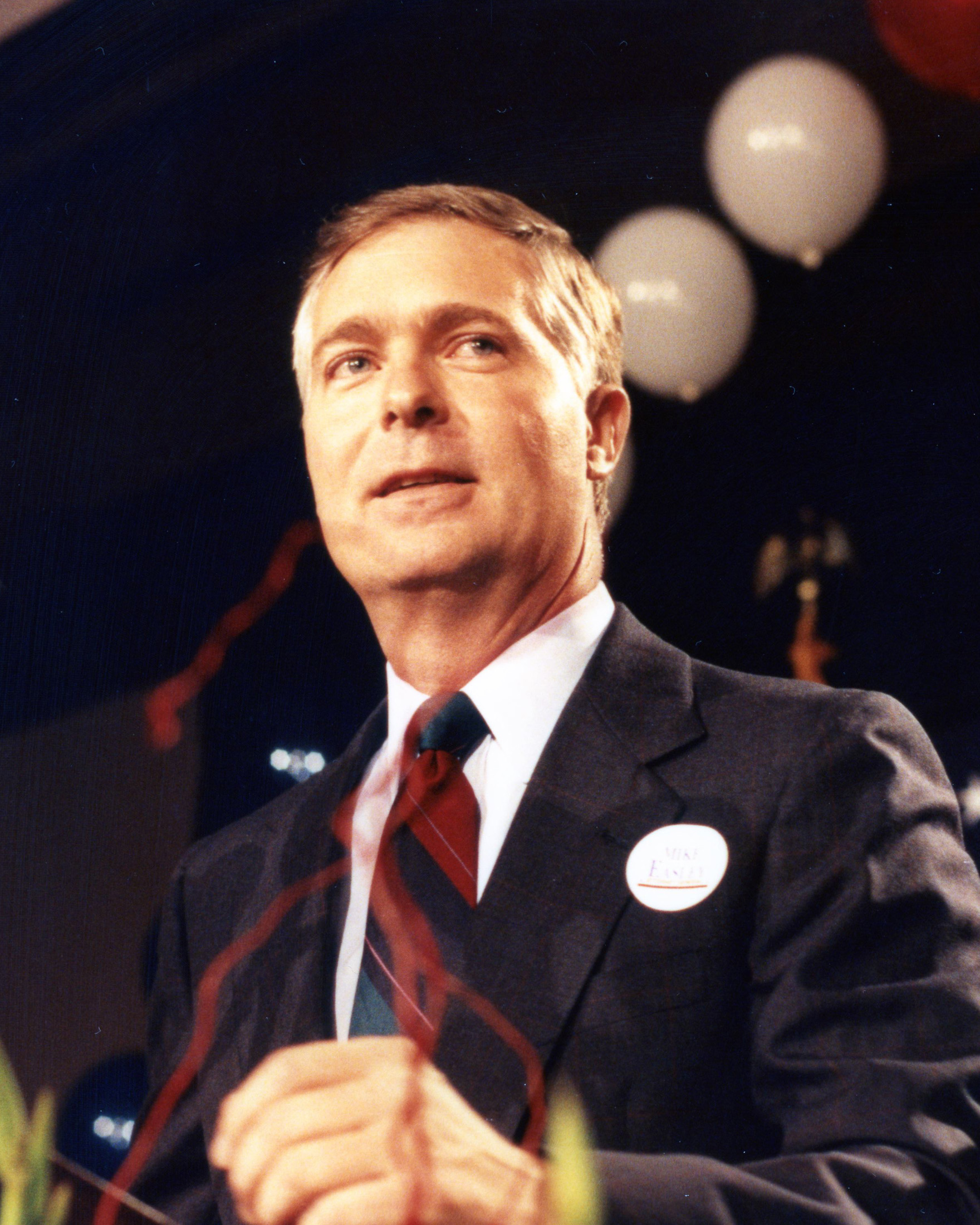 Mike Easley on election night 1992, after winning the office of Attorney General.